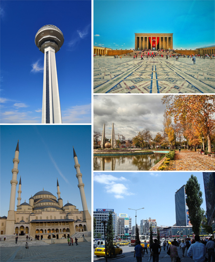 This is a montage of Ankara for 2020